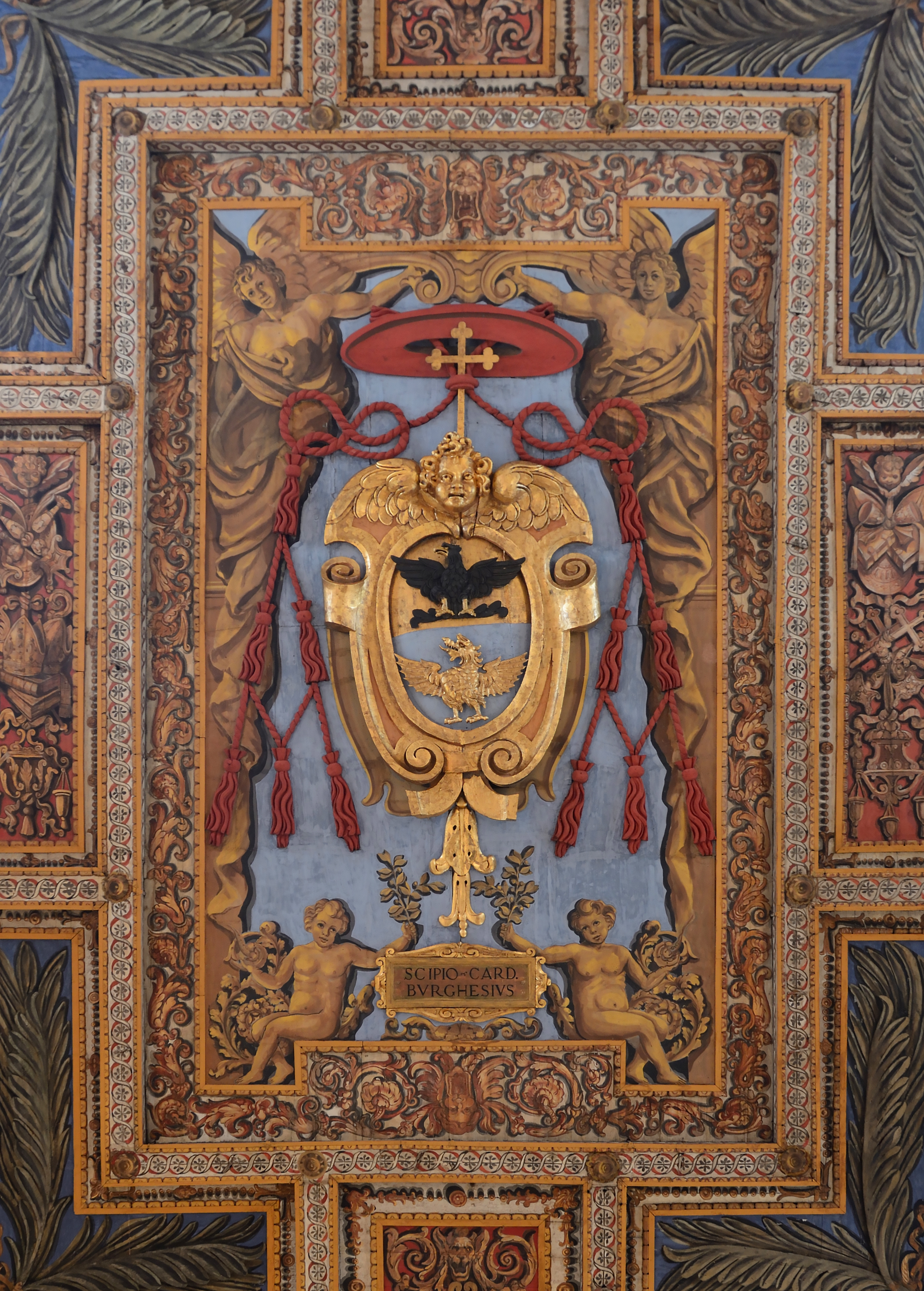 Roof of San Sebastiano fuori le mura